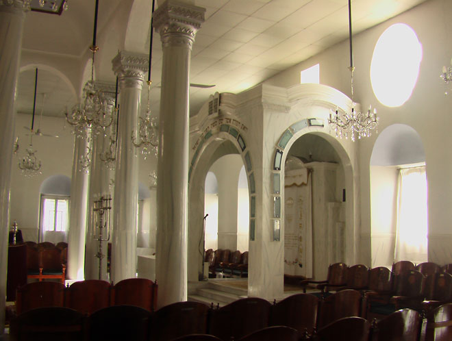 The synagogue in Larissa. Credit: Courtesy of Arie Darzi to memorialize the Jewish community in Greece.